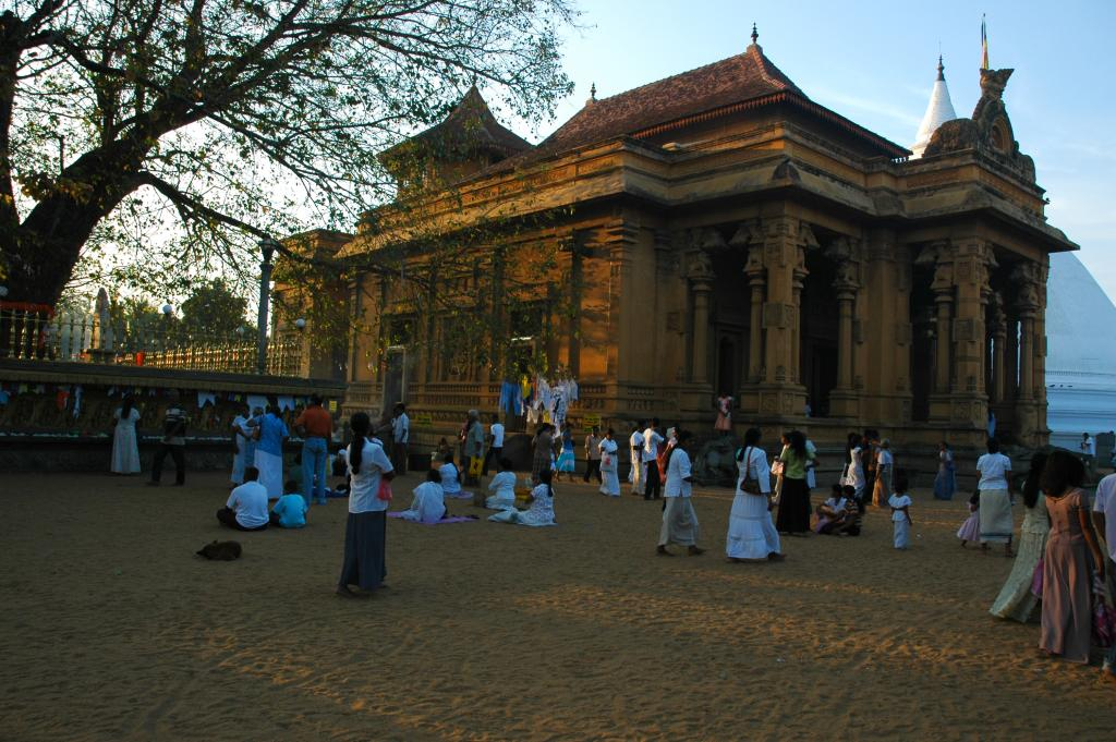 The Kelani Vihara with the sacred Bo Tree, the Vihara Gei in the foreground and the Dagoba in the background.